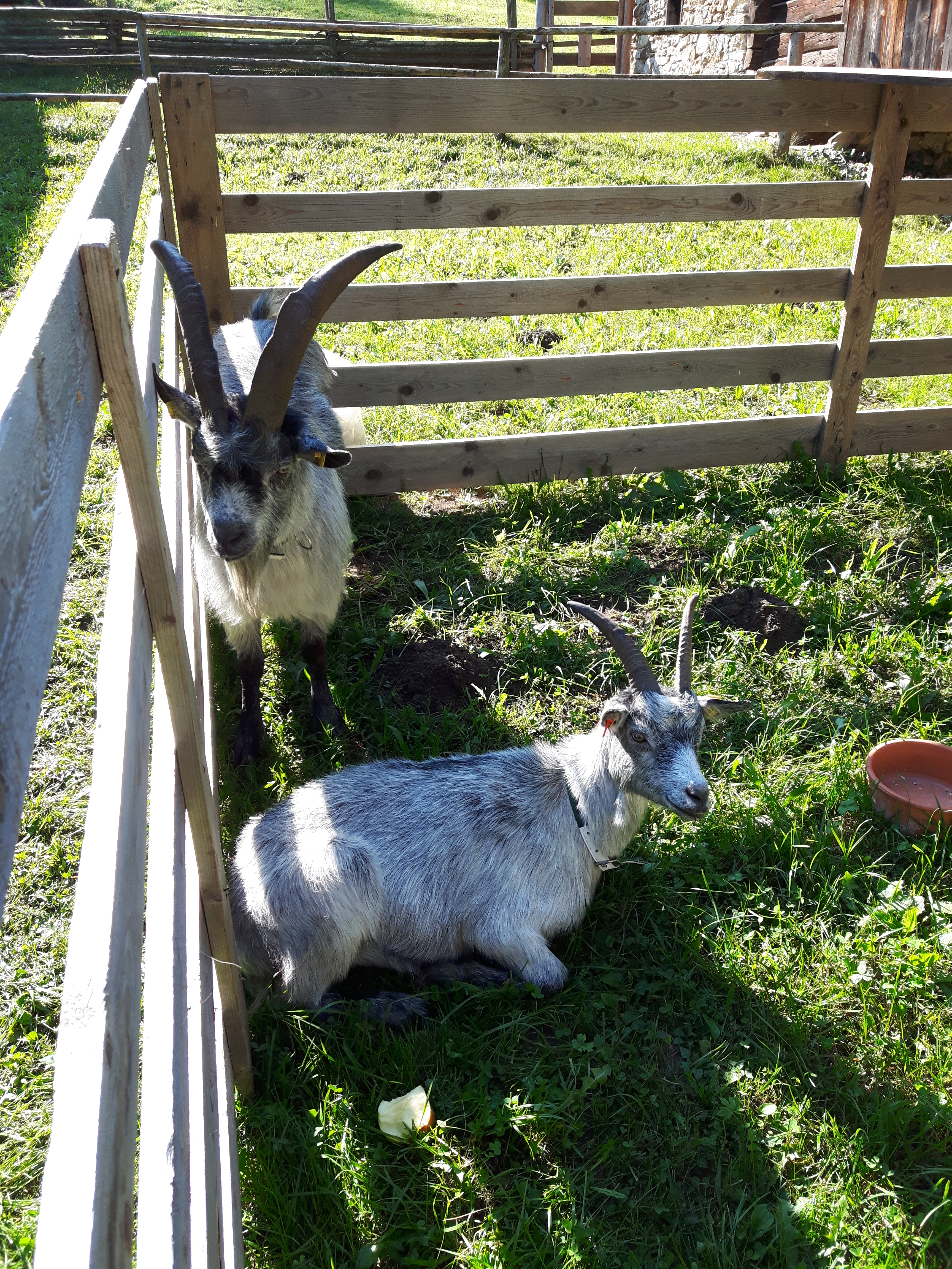 A he-goat (standing) and a female goat of the breed Blobe Ziege